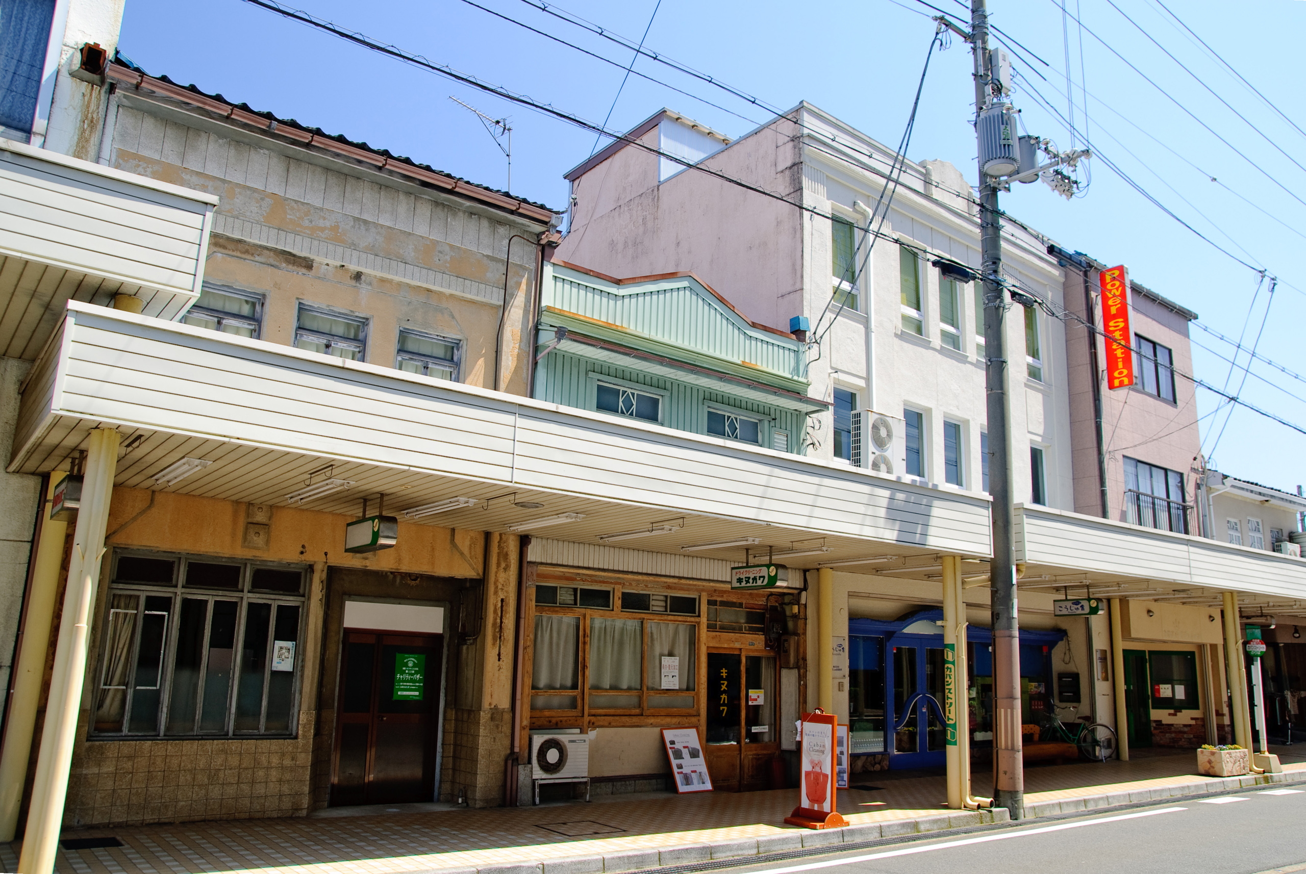 Yoida Street in Toyooka, Hyogo Prefecture, Japan.